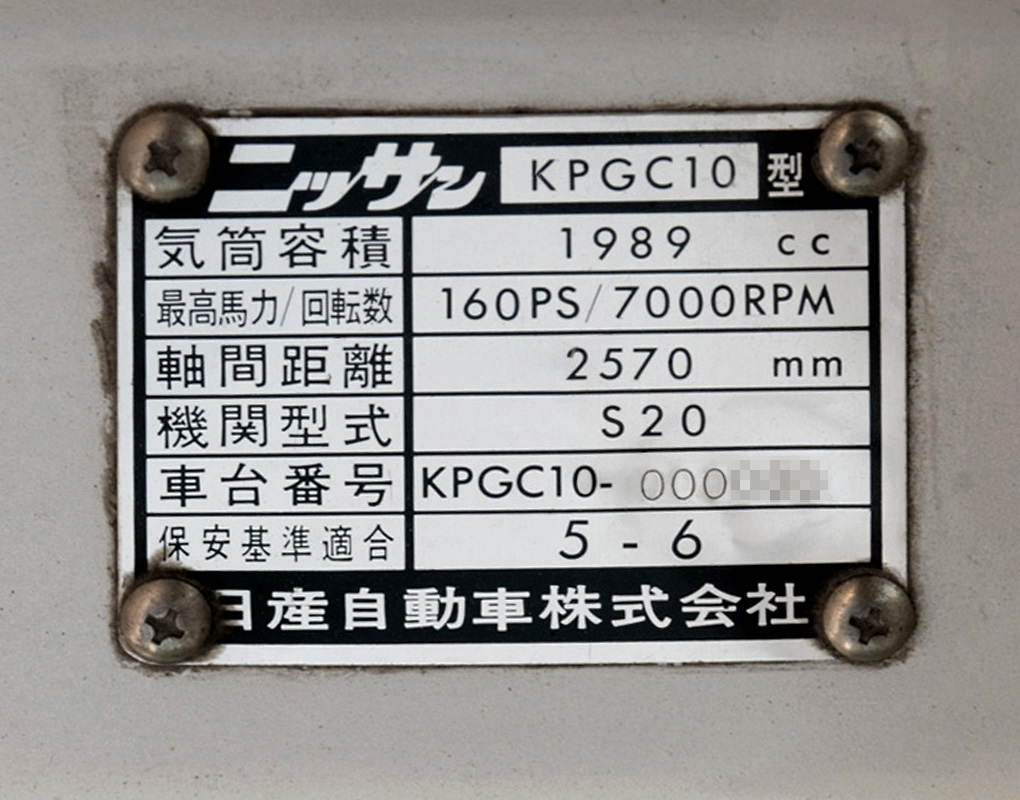 Makers plate of Skyline GT-R ( KPGC10 )